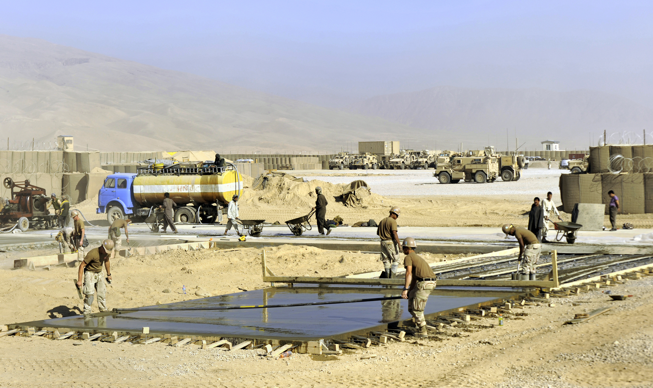 KHILAGUY, Afghanistan (Nov. 23, 2010) Seabees assigned to Naval Mobile Construction Battalion (NMCB) 40 work with Afghani contractors to place concrete for helicopter landing pads at forward operating base Khilaguy. The concrete landing pads will provide fast air support for medical evacuations and will close the distance and reduce the time it takes for wounded to get medical care. (U.S. Navy photo by Chief Mass Communications Specialist Michael B. Watkins/Released)